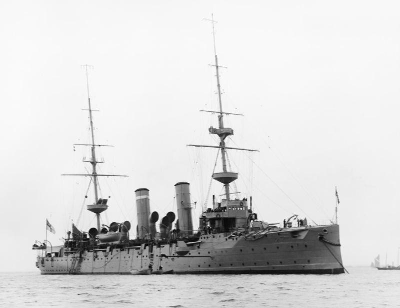 Photograph of British Eclipse class protected cruiser HMS Dido.